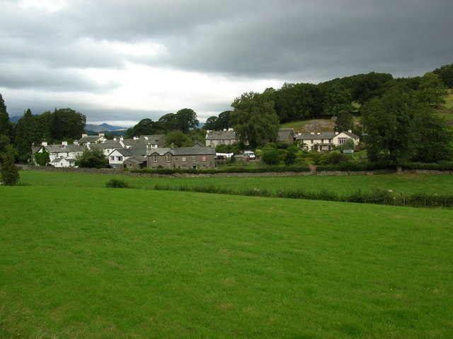 Near Sawrey. The village of Near Sawrey. Famous for its links to Beatrix Potter who lived here.